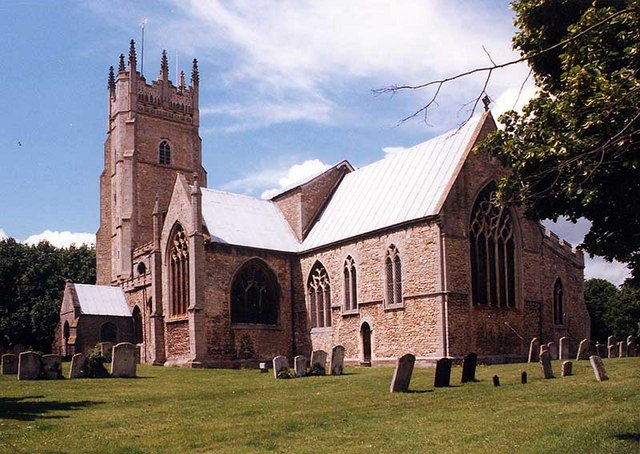 St Andrew, Soham